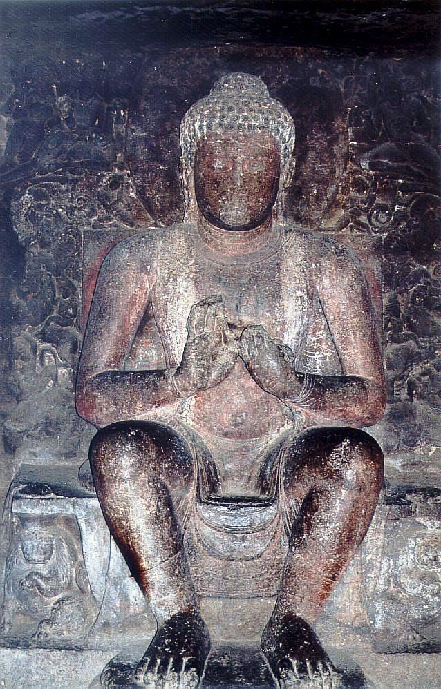 Aurangabad Caves, Maharashtra, India.